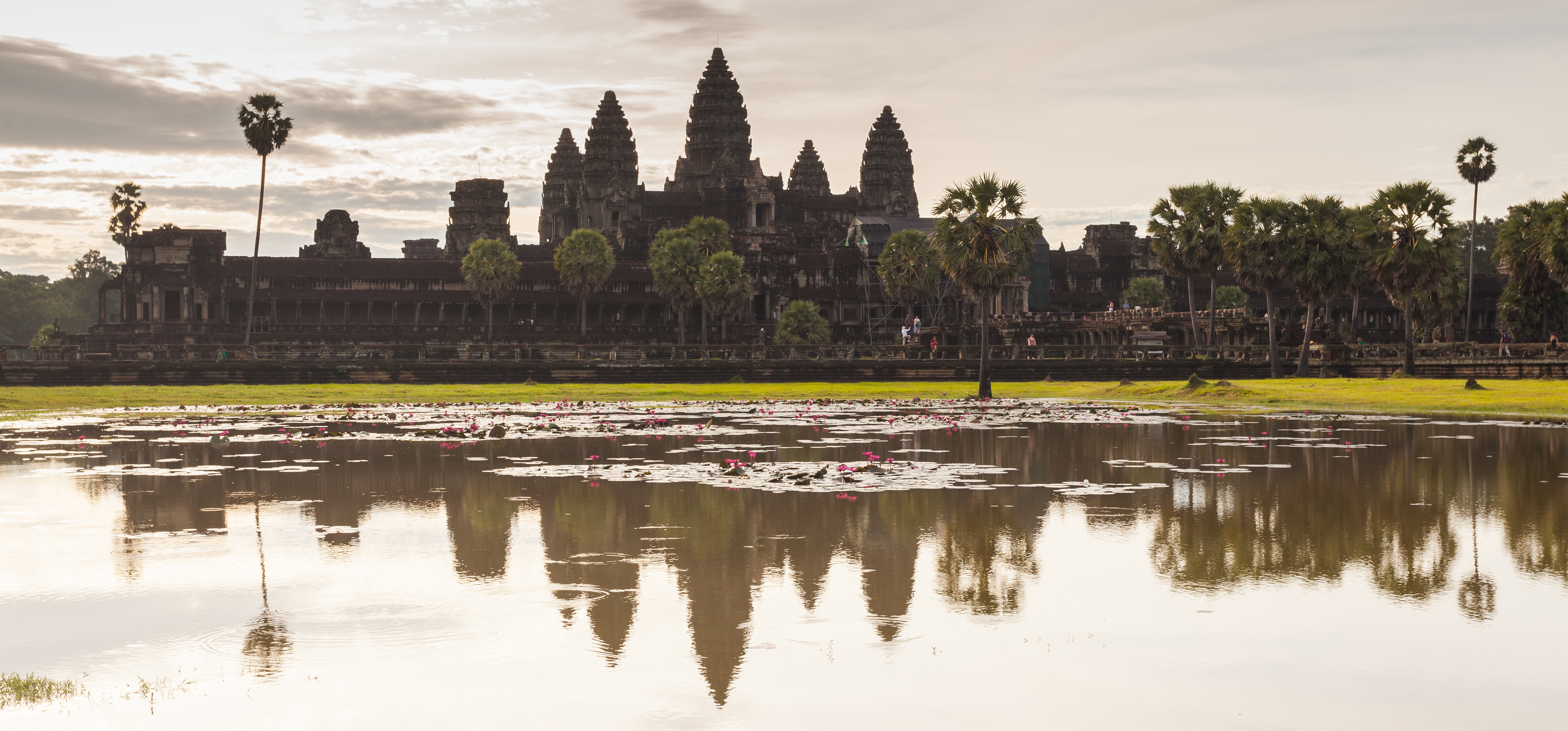 Angkor Wat, Cambodia